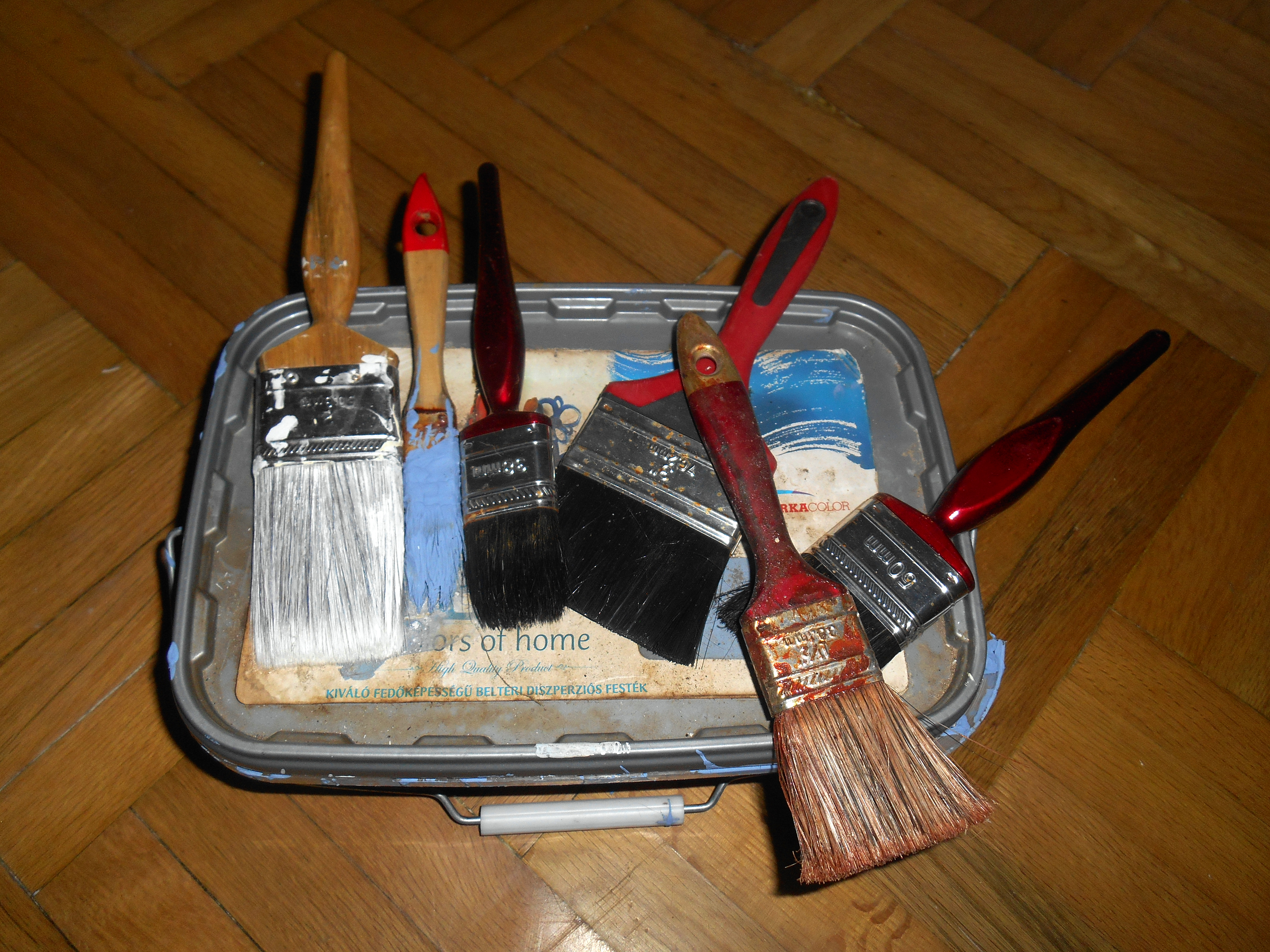 A variety of paintbrushes used for domestic decorating. These tend to be larger than artists' paintbrushes, although some artists such as Rolf Harris and Gerald Scarfe do use them in their artwork.